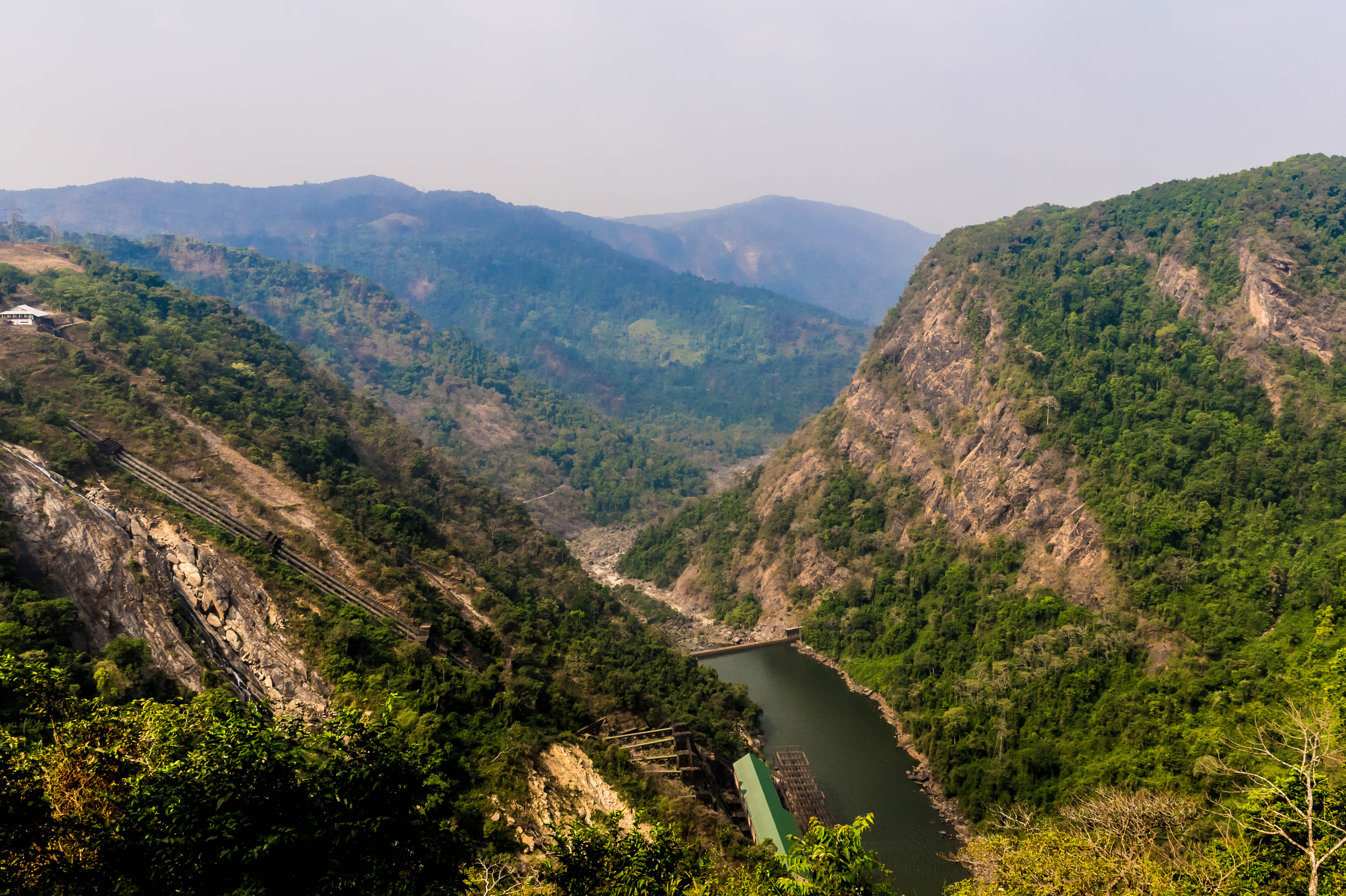 Hydroelectric plant reservoir Jogfalls Karnataka India January 2015